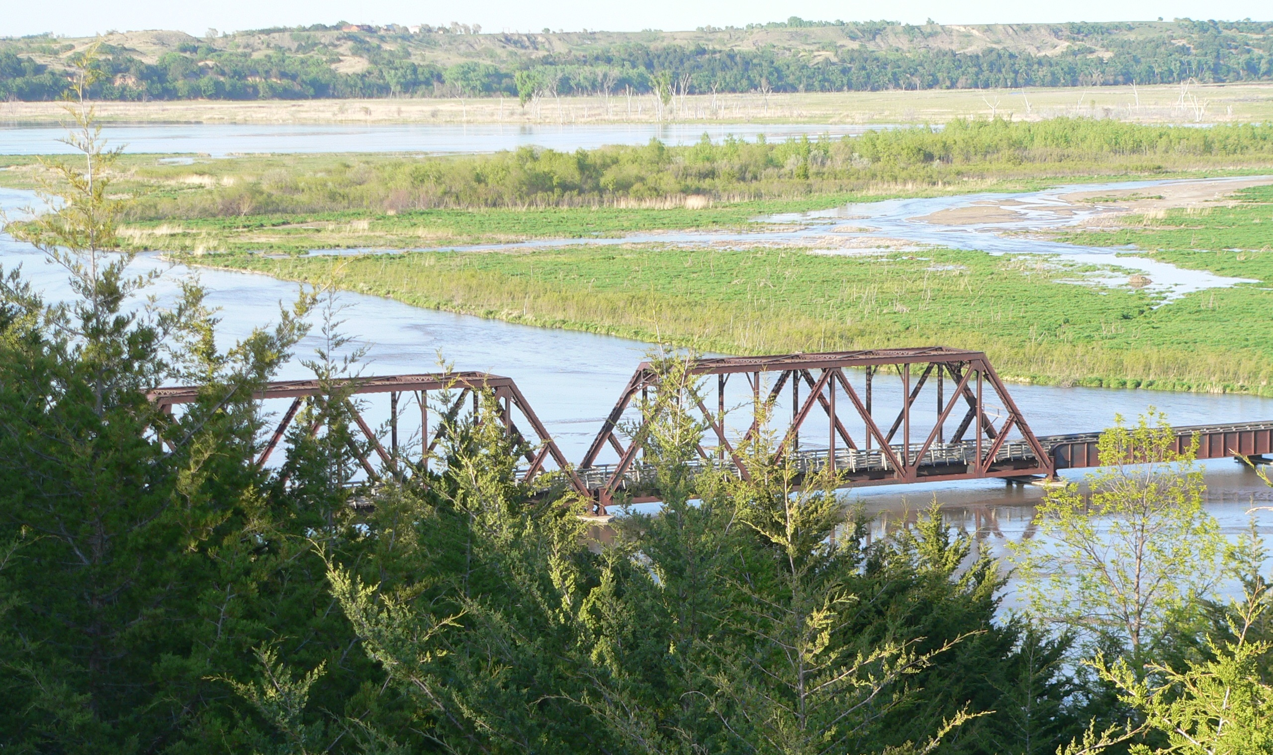 Western portion of the Niobrara River Bridge near the mouth of the Niobrara in Knox County, Nebraska; seen from the southwest (upstream). The bridge was built in 1929 to carry the Chicago and North Western Railroad across the Niobrara immediately upstream from its confluence with the Missouri. It consists of three rigid-connected Warren through truss spans at the west end, then seven steel plate through girders, then 29 timber stringer approach spans over the floodplain to the east. It is now a part of Niobrara State Park, where it serves as a footbridge. The bridge is listed in the National Register of Historic Places. The Missouri River flows from left to right in the background of the photo.